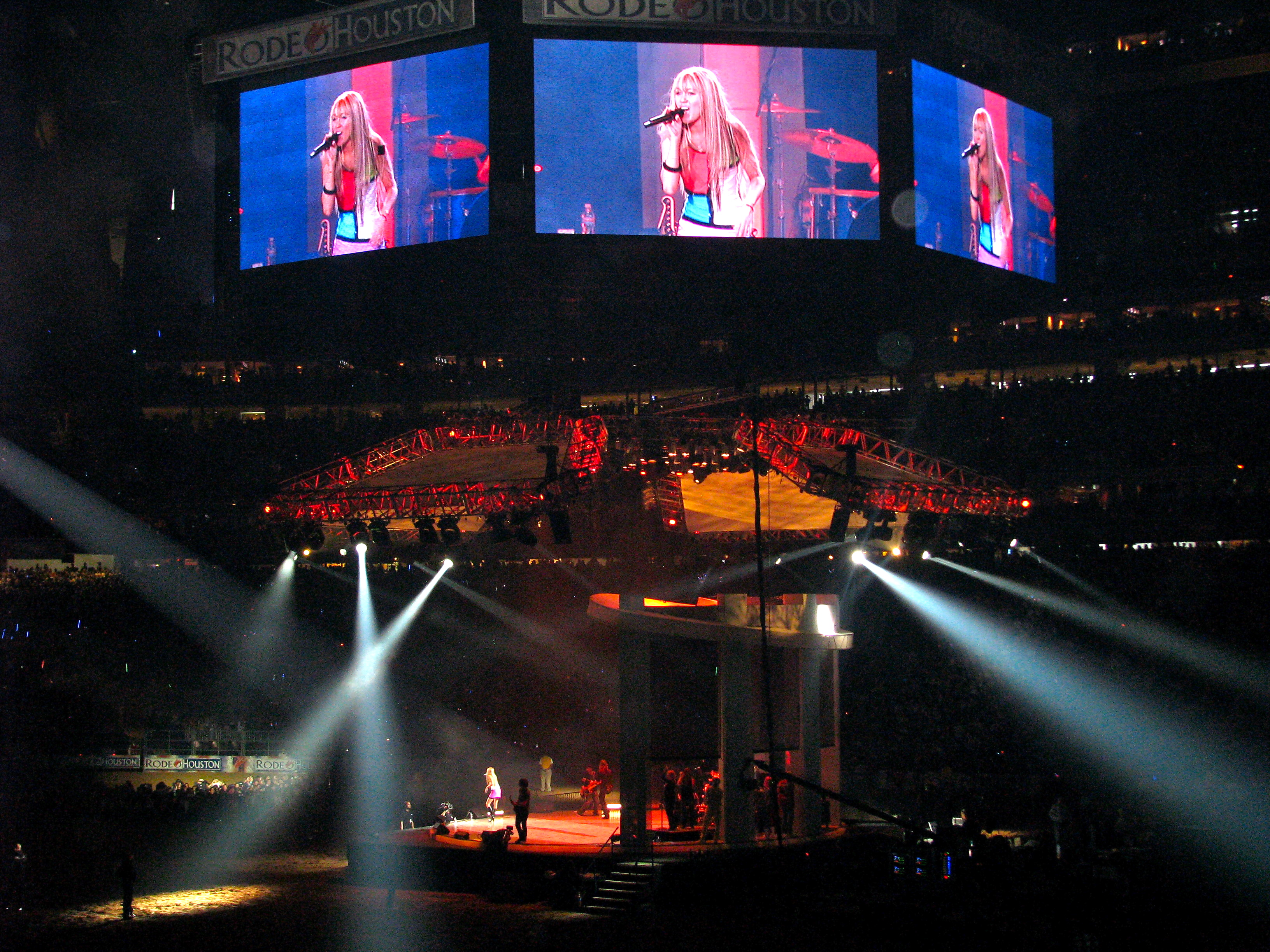 A teen singing.